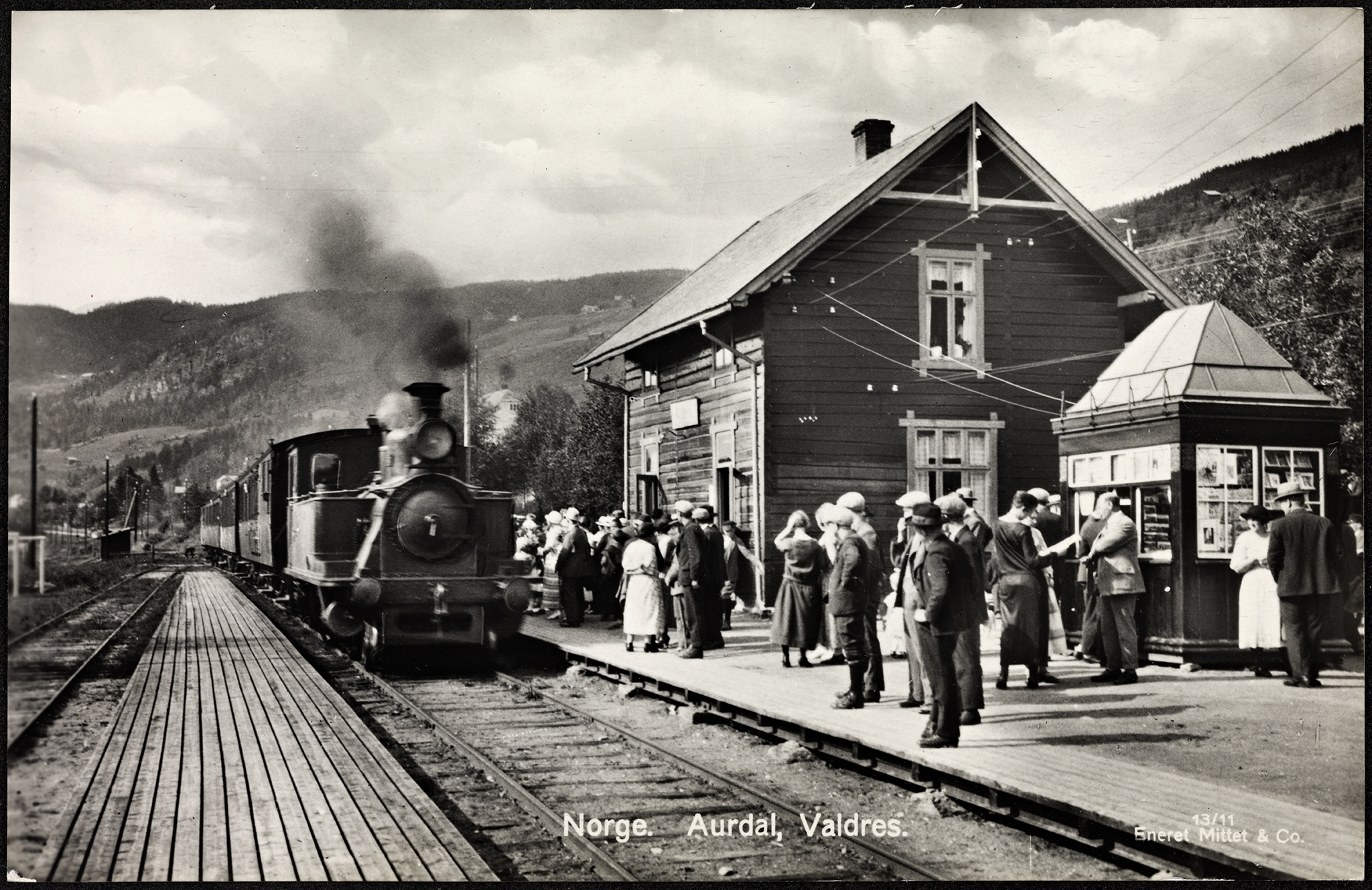 Tittel / Title: Norge. Aurdal, Valdres Beskrivelse / Description: Postkort / postcard. Dato / Date: ca 1934 Fotograf / Photographer: ukjent / unknown Utgiver / Publisher: Mittet & Co. Sted / Place: Oppland, Nord-Aurdal, Aurdal Eier / Owner Institution: Nasjonalbiblioteket / National Library of Norway Lenke / Link: Bildesignatur / Image Number: blds_05871